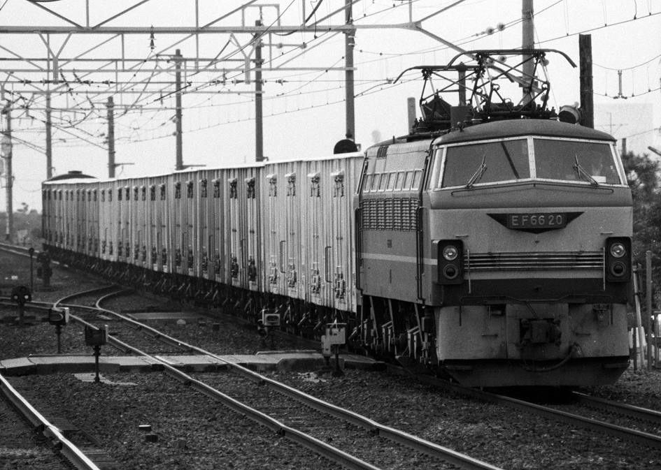 JNR Class EF66 electric locomotive EF66 20 approaching Niwase Station on a Sanyo Main Line express freight service formed of "ReSa 10000" refrigerated vans